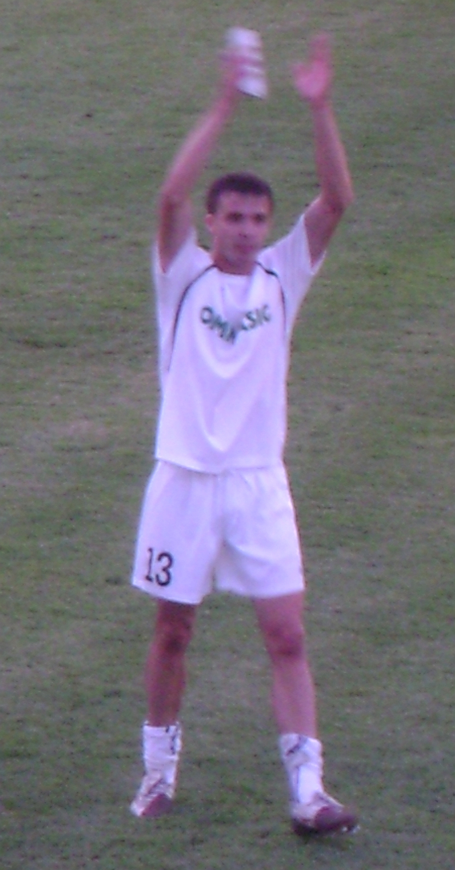 Romanian footballer, FC Sportul Studenţesc Bucureşti midfielder, Sebastian Ghinga